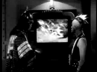 Screenshot from the serial Undersea Kingdom.